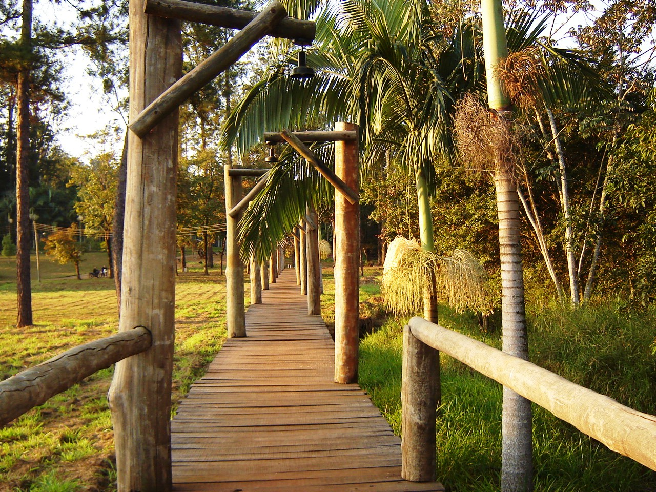 Picture of the florestal park of Edmundo Navarro de Andrade (Rio Claro, Brazil).